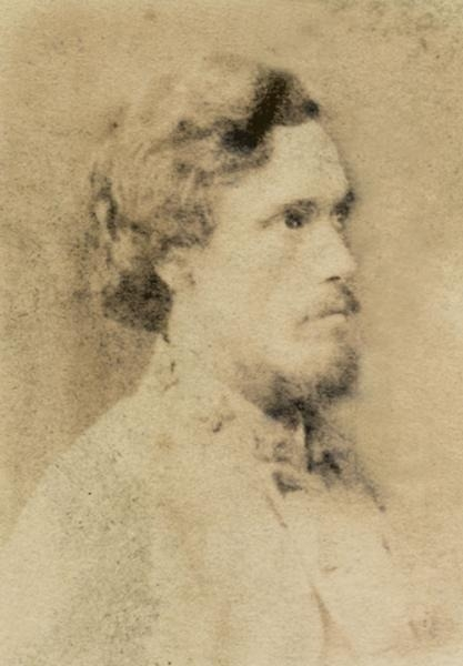 Portrait of Colonel William Lamb, Museum of the Confederacy. Note: A prewar Norfolk publisher, Colonel William Lamb assumed command of Fisher in July 1862. He survived the wounds he suffered while defending the fort and later in life became close friends with one of the heroes of the Union assault, Colonel Martin Curtis.